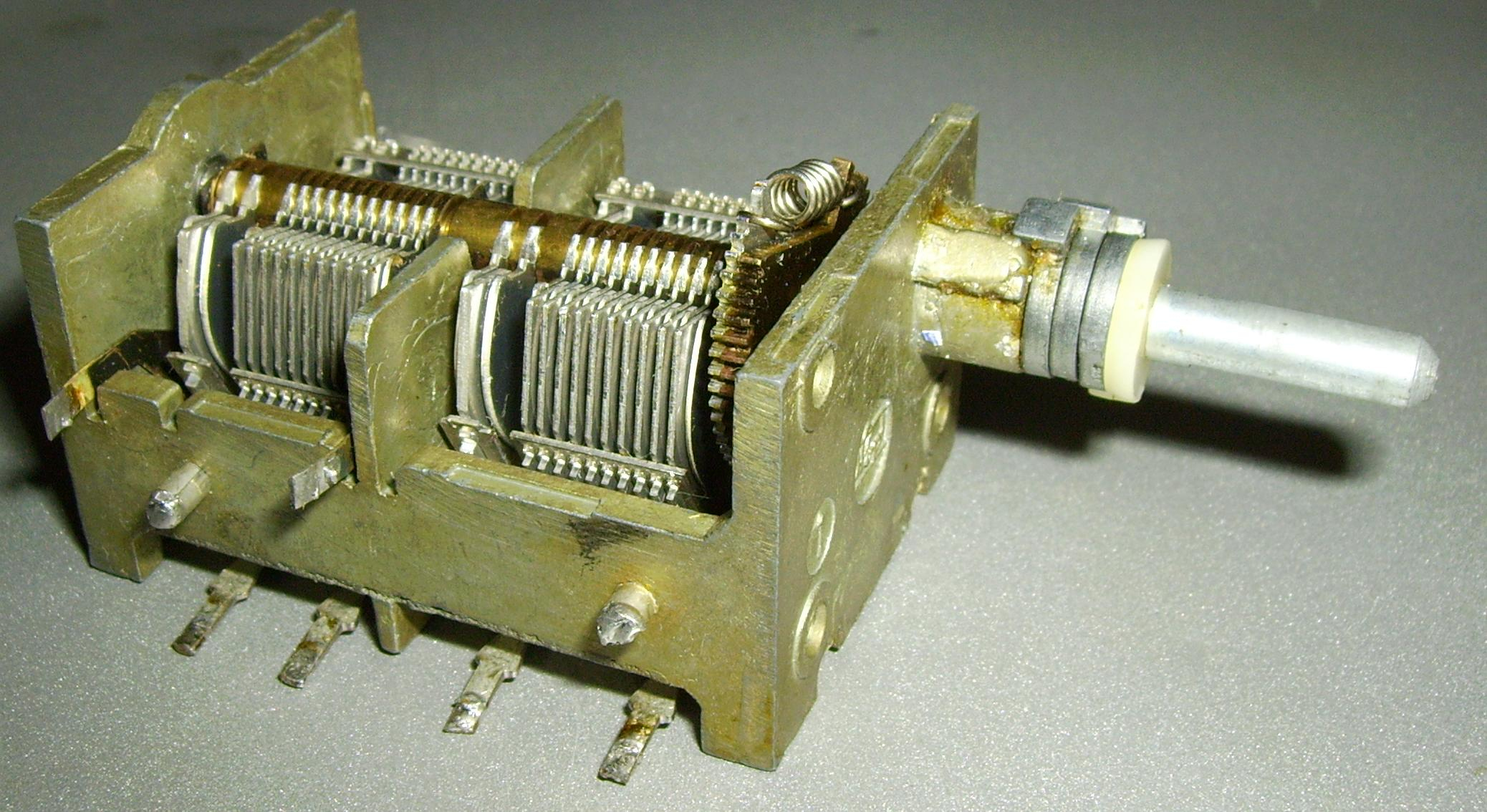 A photo of a variable capacitor from an old SW/MW/LW radio